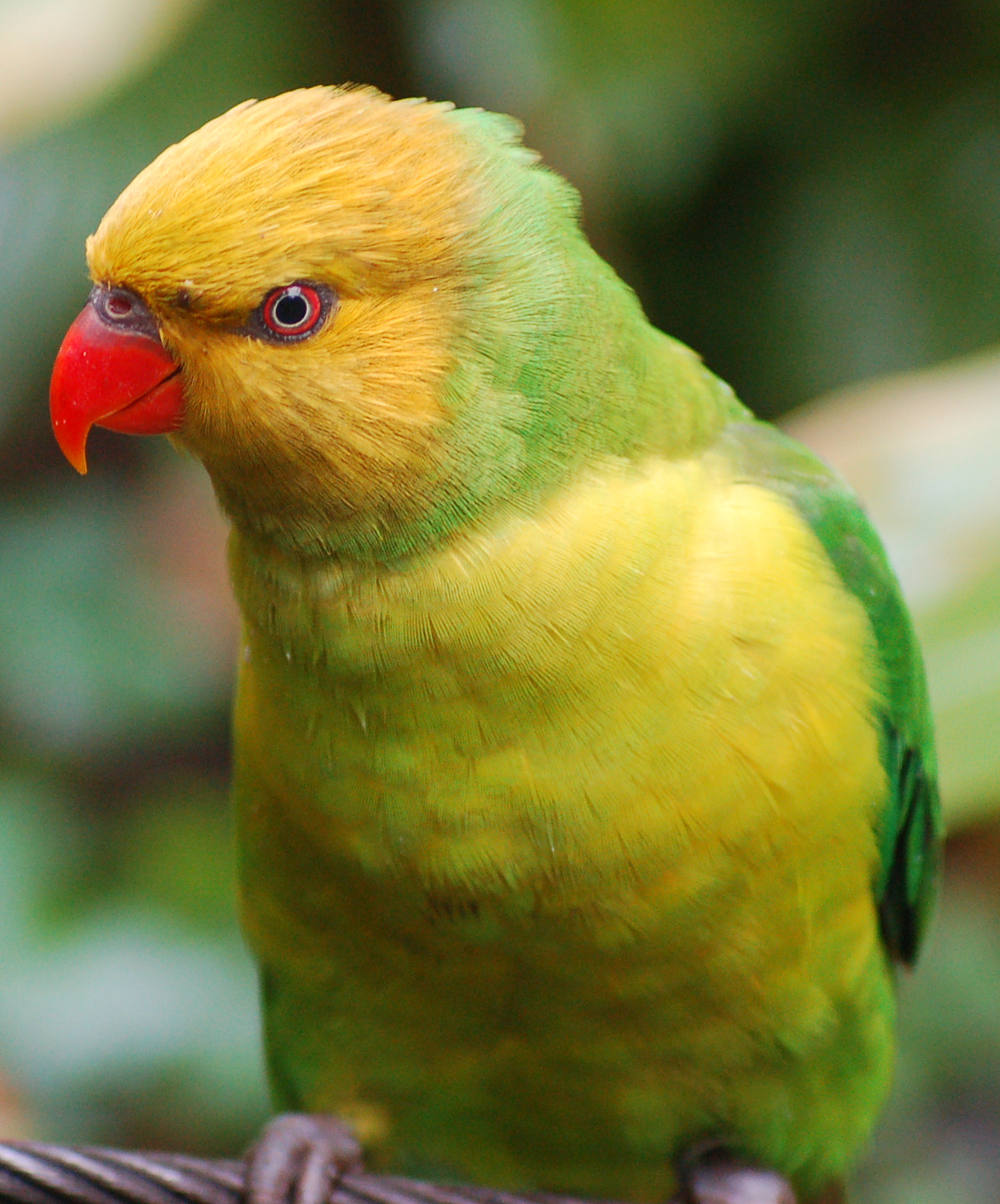 Olive-headed Lorikeet (Trichoglossus euteles) also called the Perfect Lorikeet. Photo taken at the Pittsburgh Zoo.